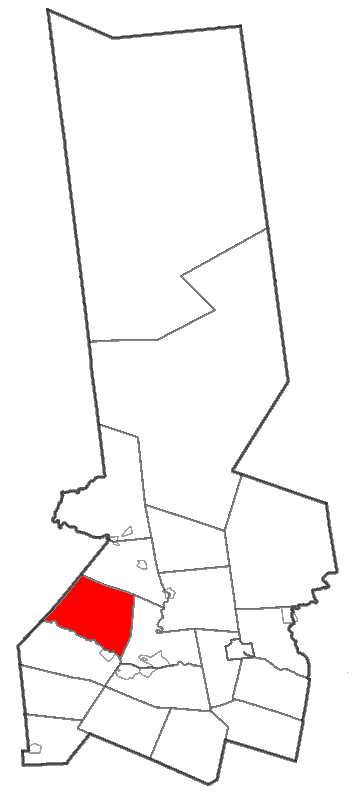 Map of Herkimer County highlighting Schuyler